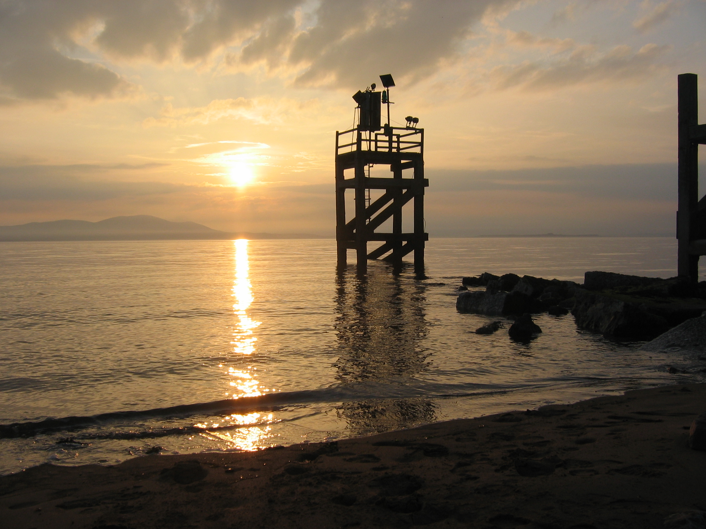 Silloth west Beach, Cumbria, England